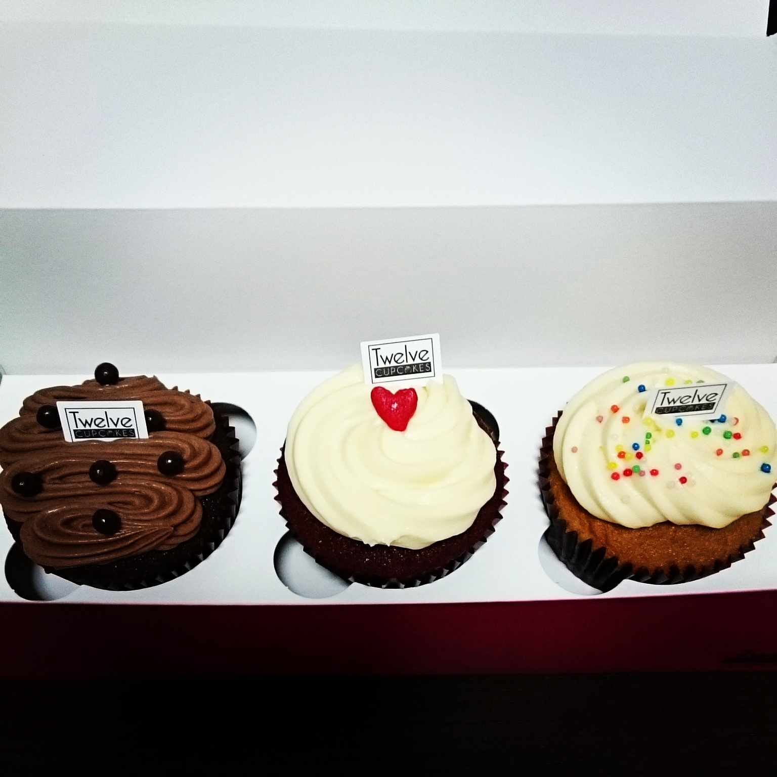 Cupcakes from Twelve Cupcakes.